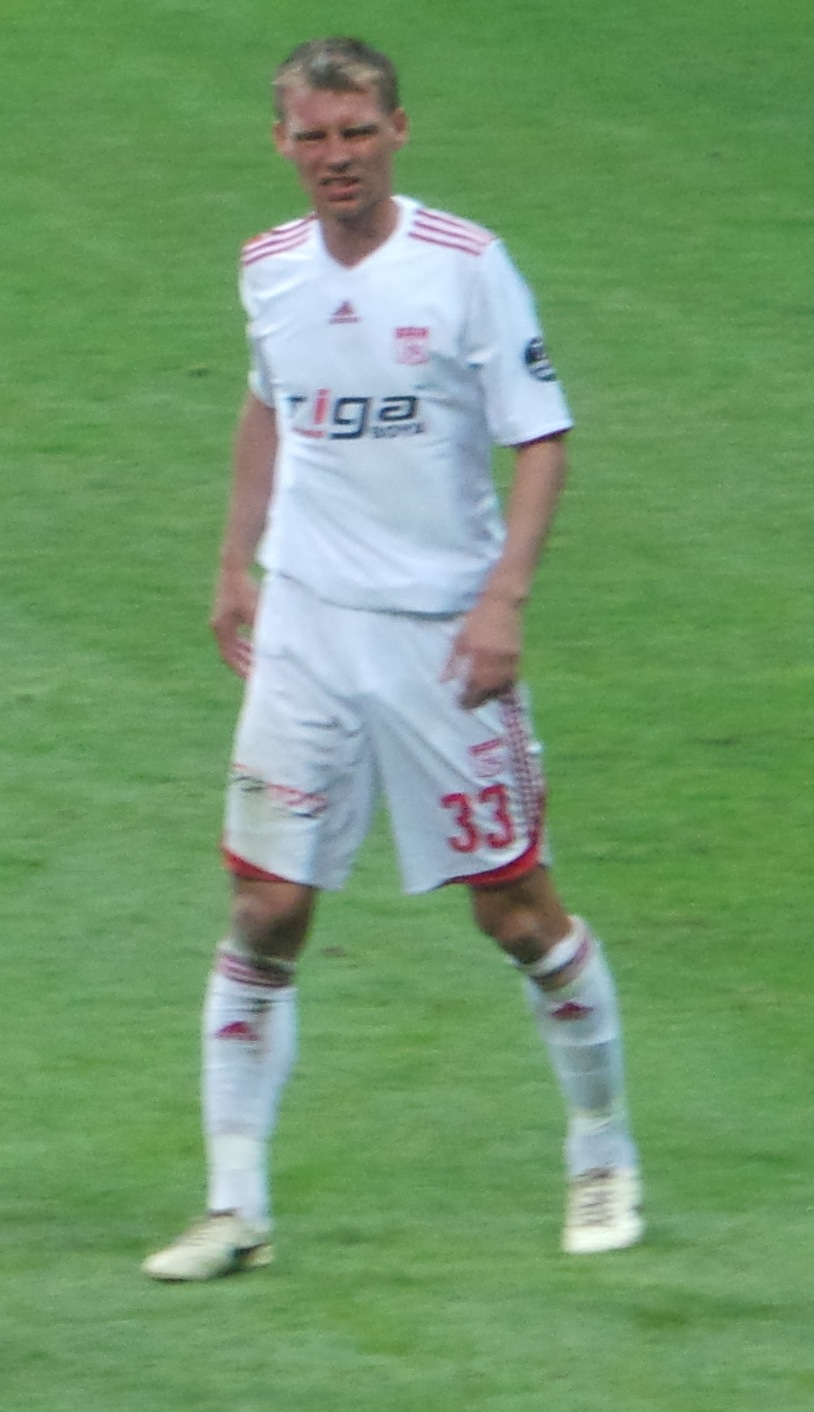 Jan Rajnoch Sivasspor formasıyla